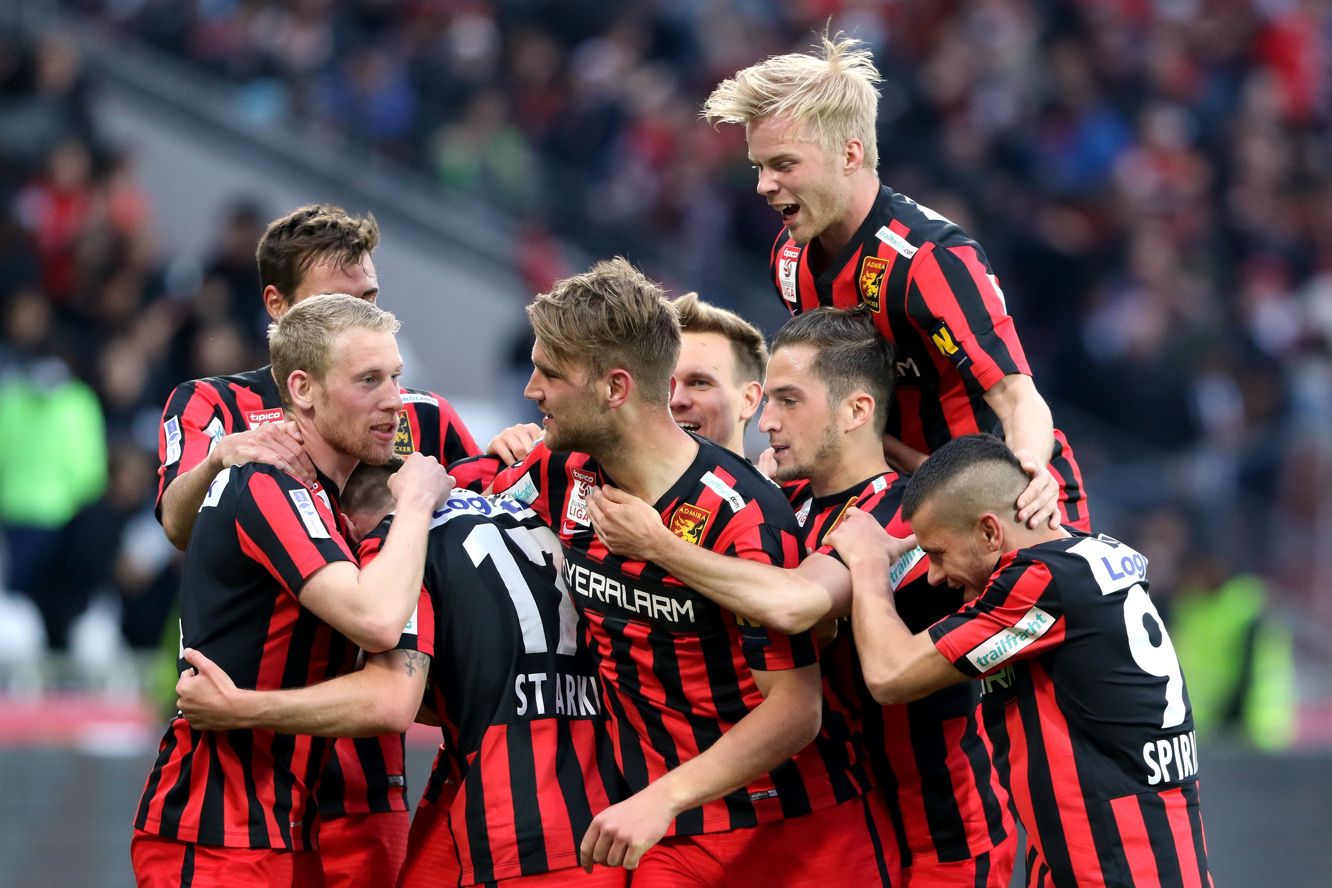 Semifinal of the 2015–16 Austrian Cup – FC Admira Wacker Mödling (red-black shirts) vs. SKN St. Pölten (yellow shirts) 2-1 (0-0) on 2016-04-19 in Bundesstadion Sudstadt – The photo shows the cheers of the players of FC Admira Wacker Mödling on the winning goal for a 2-1 victory by Dominik Starkl. From left to right: Markus Lackner, Thomas Ebner, Dominik Starkl, Lukas Grozurek, Daniel Toth, Christoph Knasmüllner, Srdan Spiridonovic and on top Patrick Wessely.